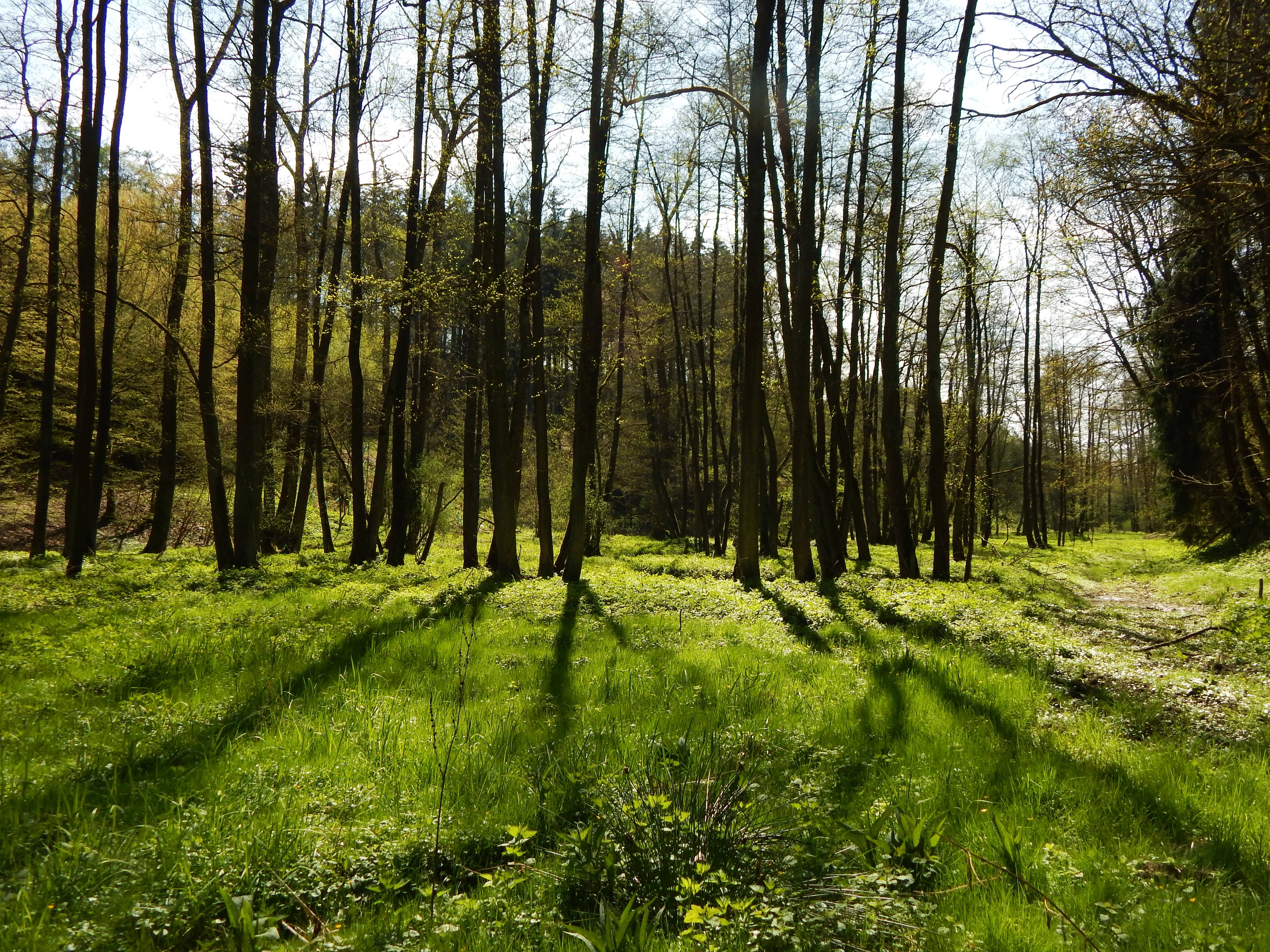 Natural monument Anenské údolí, Harrachov, Semily District, Liberec Region, Czech Republic.